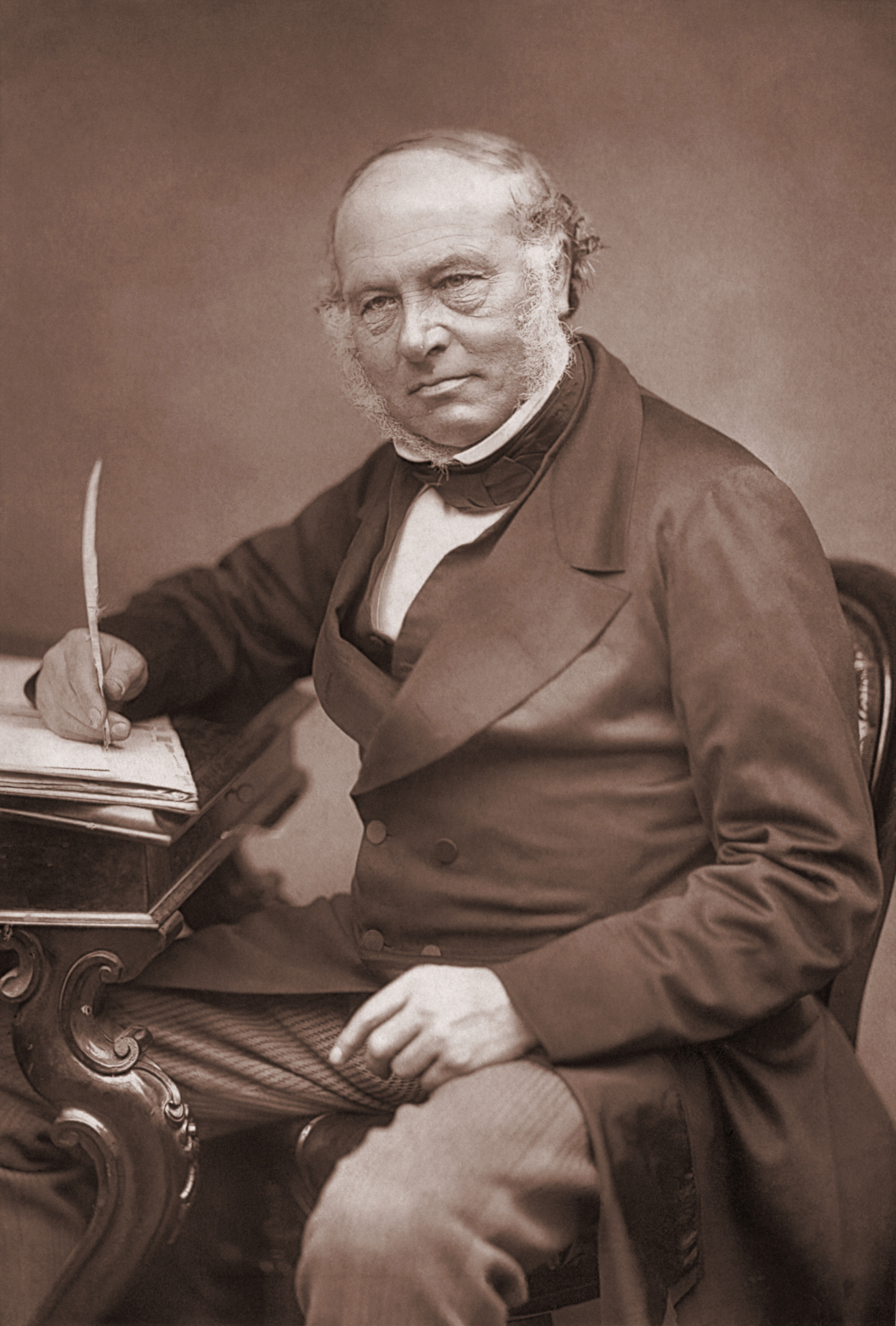 Photograph and signature of Rowland Hill (postal reformer)